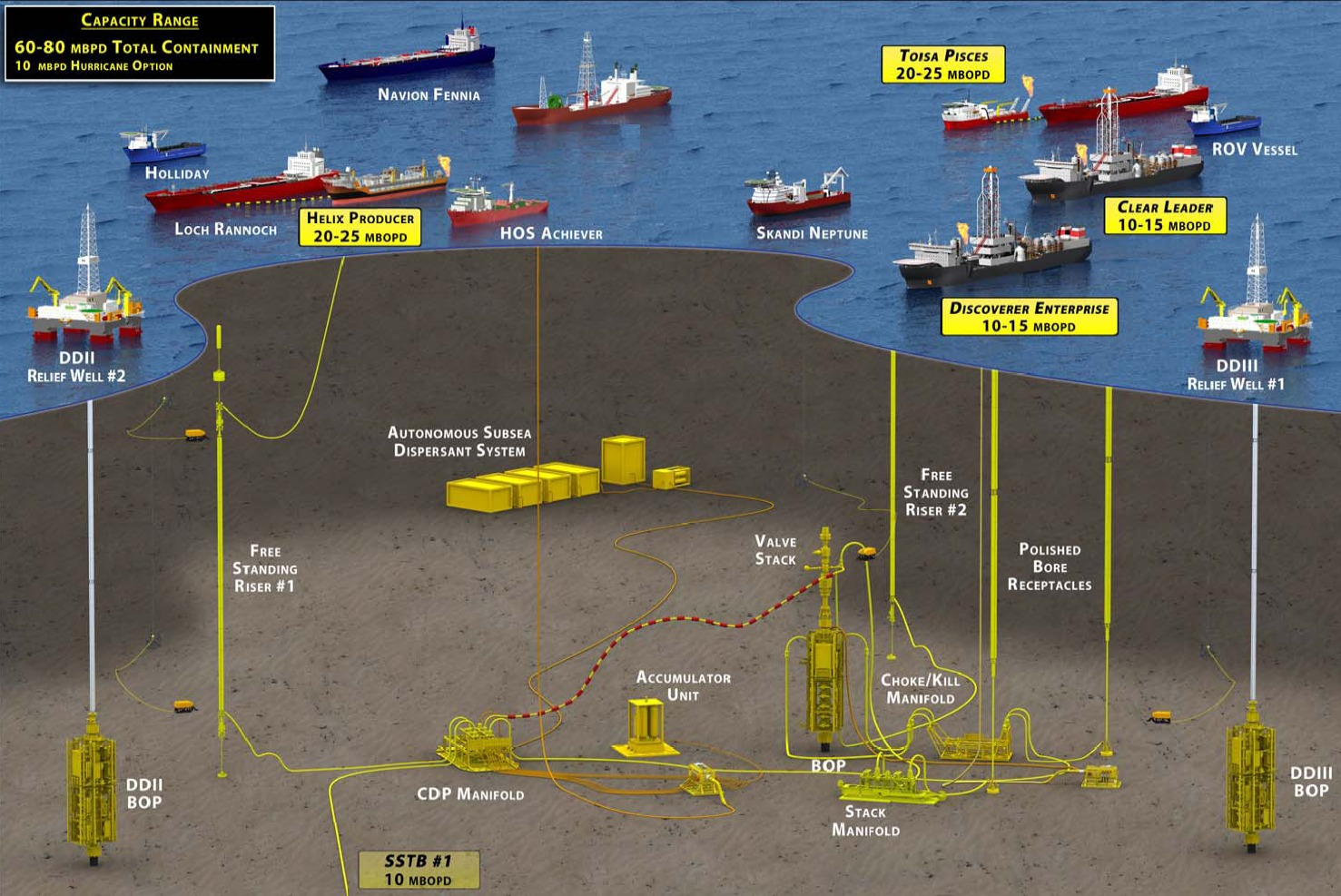 Diagram of the containment plans for the Deepwater Horizon oil spill effective mid July 2010